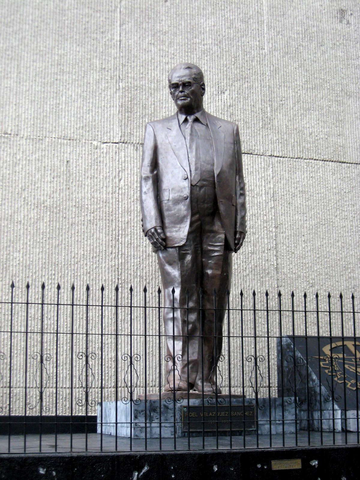 Statue of Fidel Velazquez by unknown author which stands in front of the INFONAVIT office in Mexico City